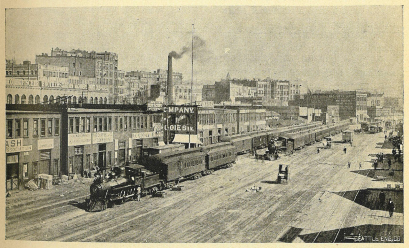 Railroad Avenue (now Alaskan Way) along the downtown Seattle waterfront. Photo accomanying essay "Seattle: Its Past, Present and Future" by Alden J. Blethen, Editor in Chief, Seattle Daily Times. Illustrated essay constitutes p. 7–11 of brochure Seattle and the Orient. The same image (differently scanned) appears on the site of the University of Washington Libraries Digital Collections; they attribute it to Anders Beer Wilse.